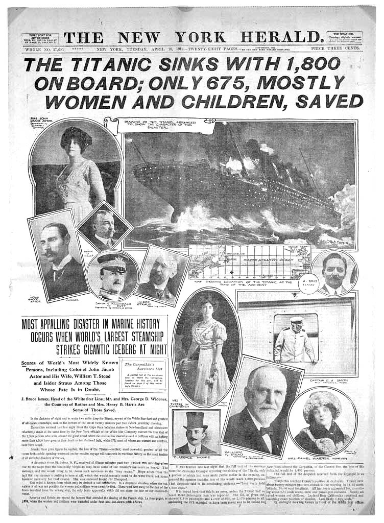 New York Herald front page about the Titanic disaster.